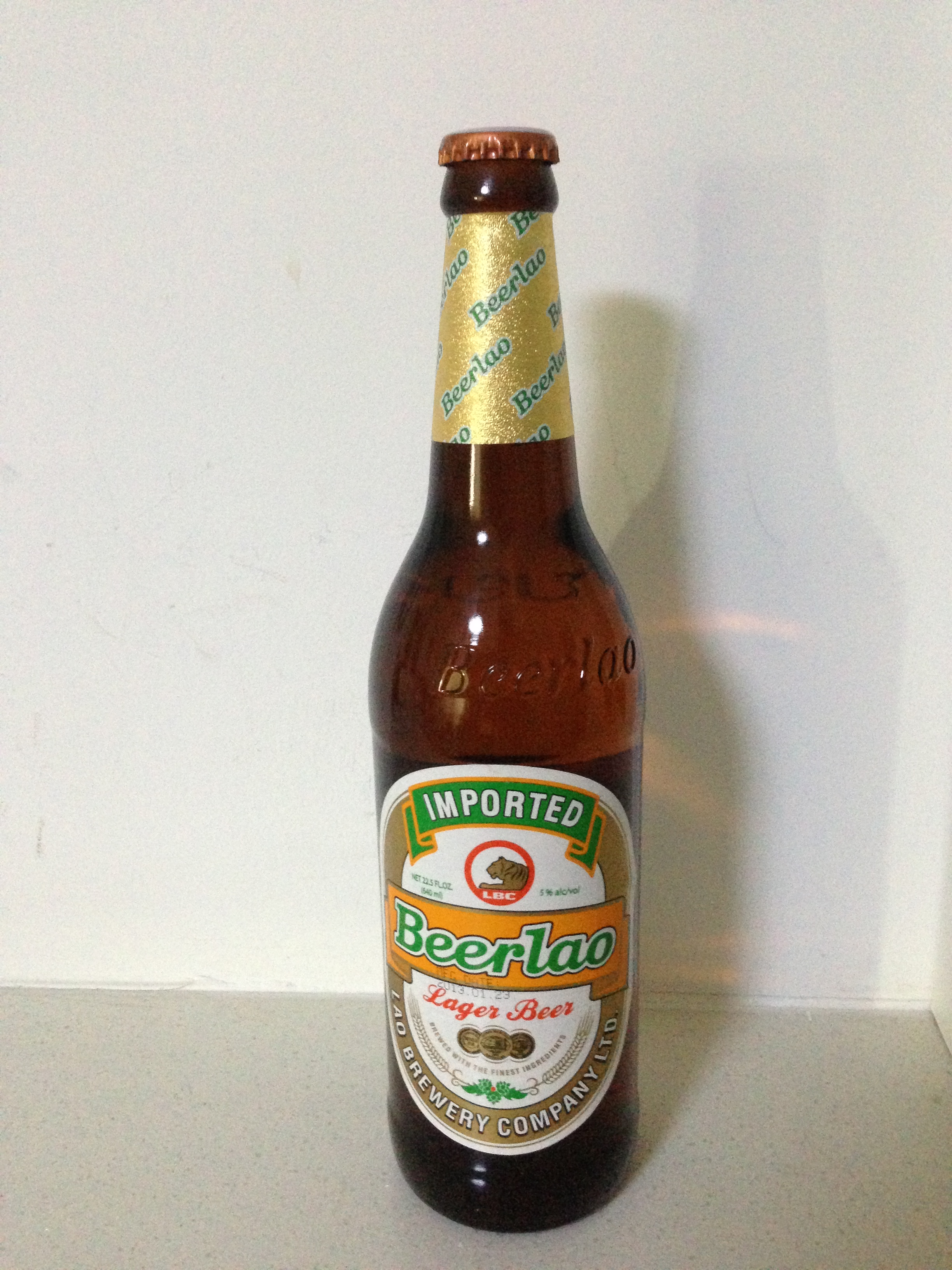 Imported Beerlao bottle